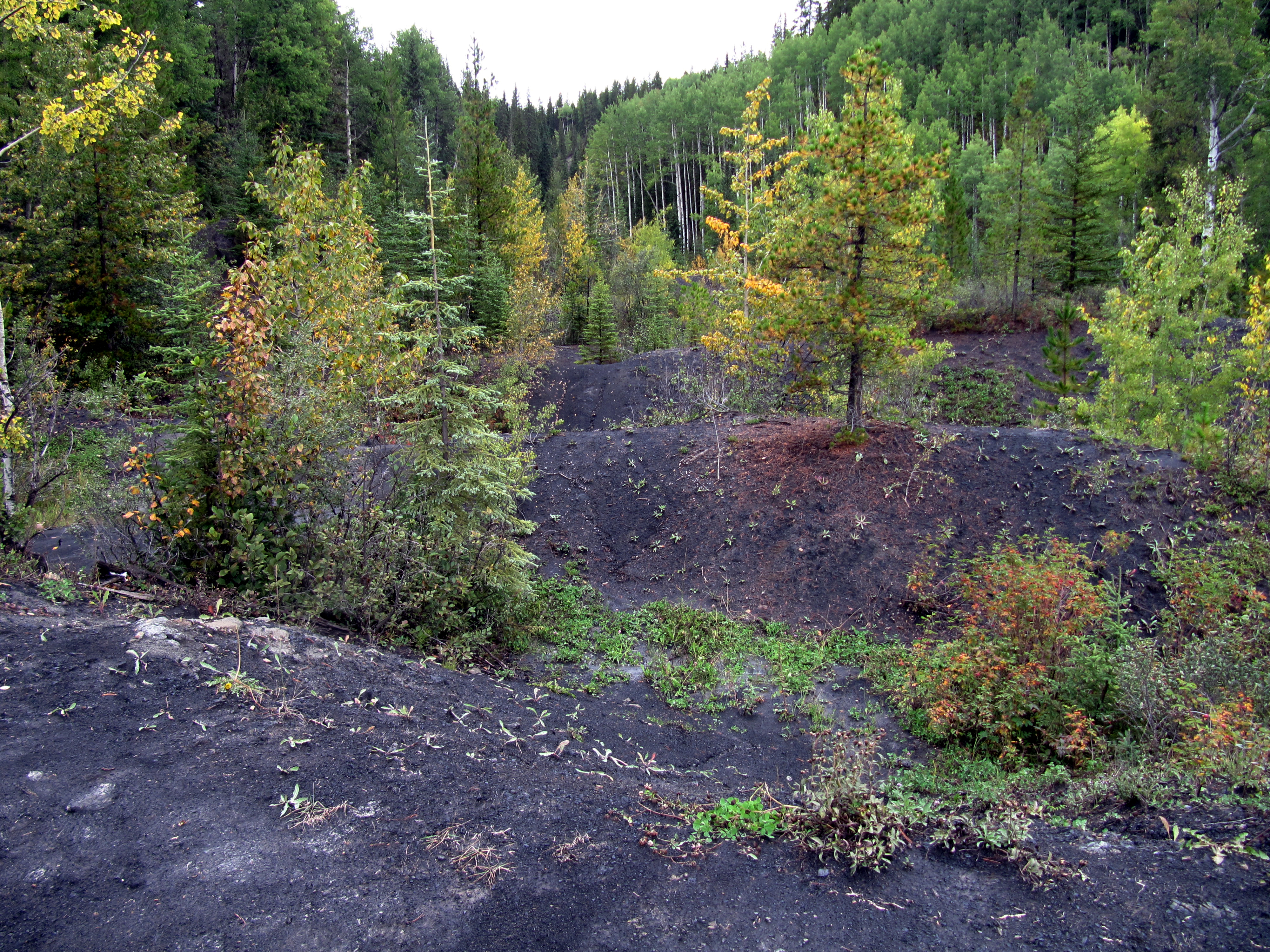 Coal waste piles from the mine at Saunders Creek, Alberta.